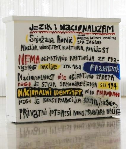 Chapter titles of Snježana Kordićʼs book Jezik i nacionalizam Height: 200 cm (78.7 in). Width: 200 cm (78.7 in).